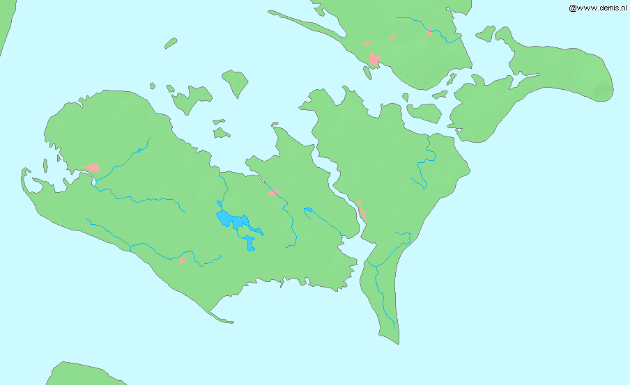 Islands Lolland, Falster, Møn in South-East Denmark. Bounding box West 10.9°, South 54.5°, East 12.6°, North 55.1°. Center at 54°48′00″N 11°45′00″E / 54.80000°N 11.75000°E.